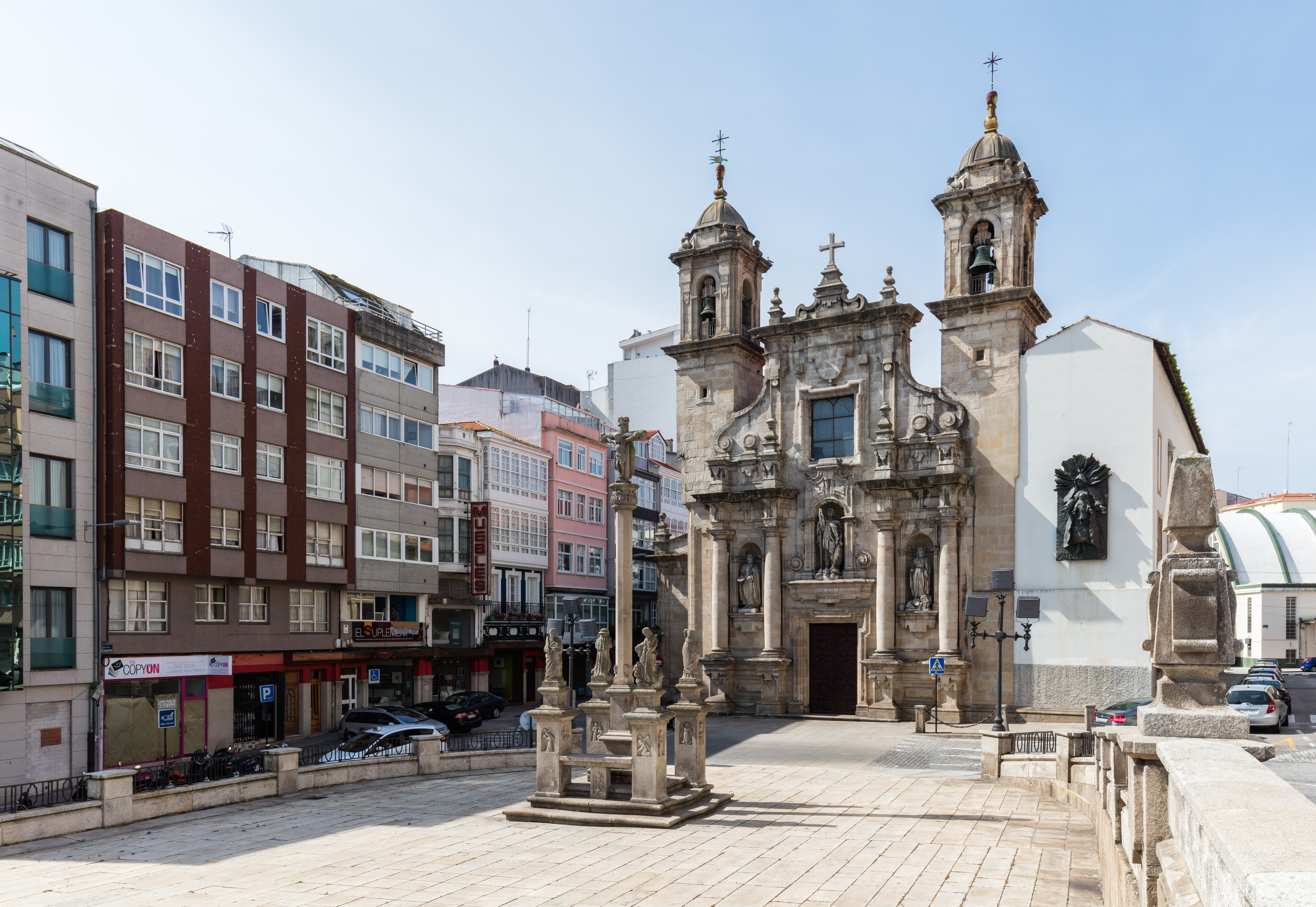 St George's church, A Coruña, Spain